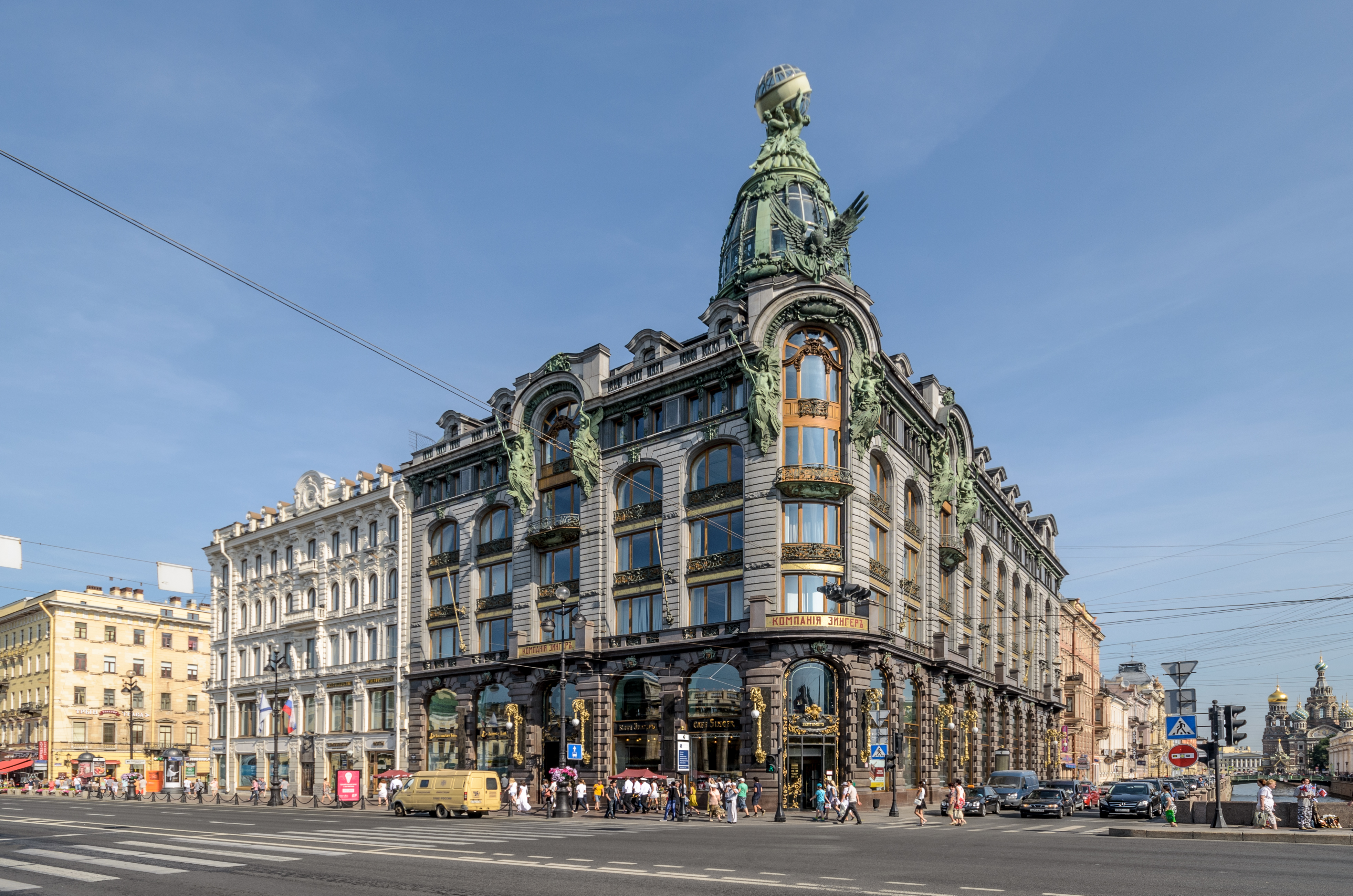 Singer Company House (Book House) at Nevsky Avenue in Saint Petersburg